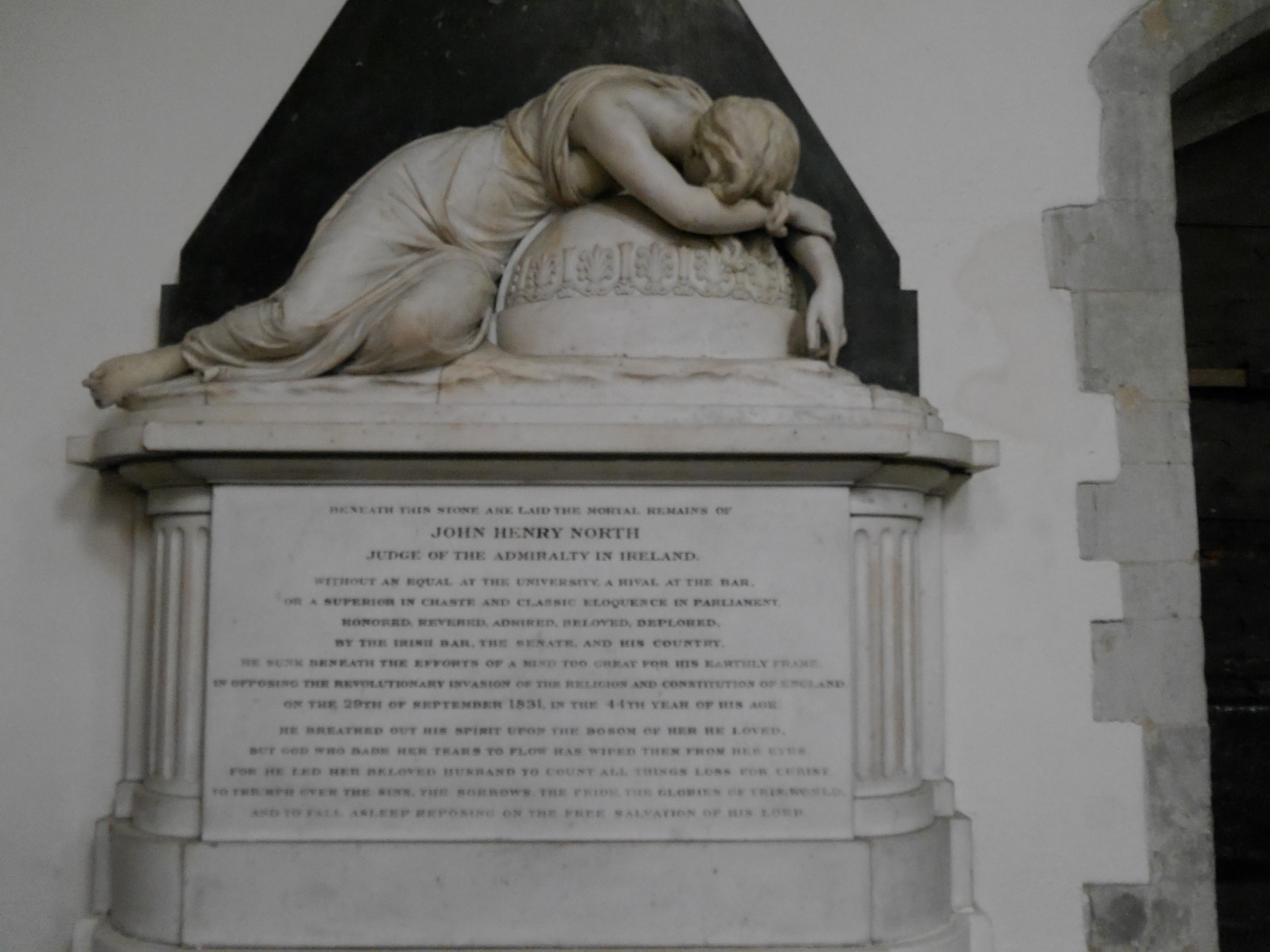 St Mary's, Harrow on the Hill, 2015